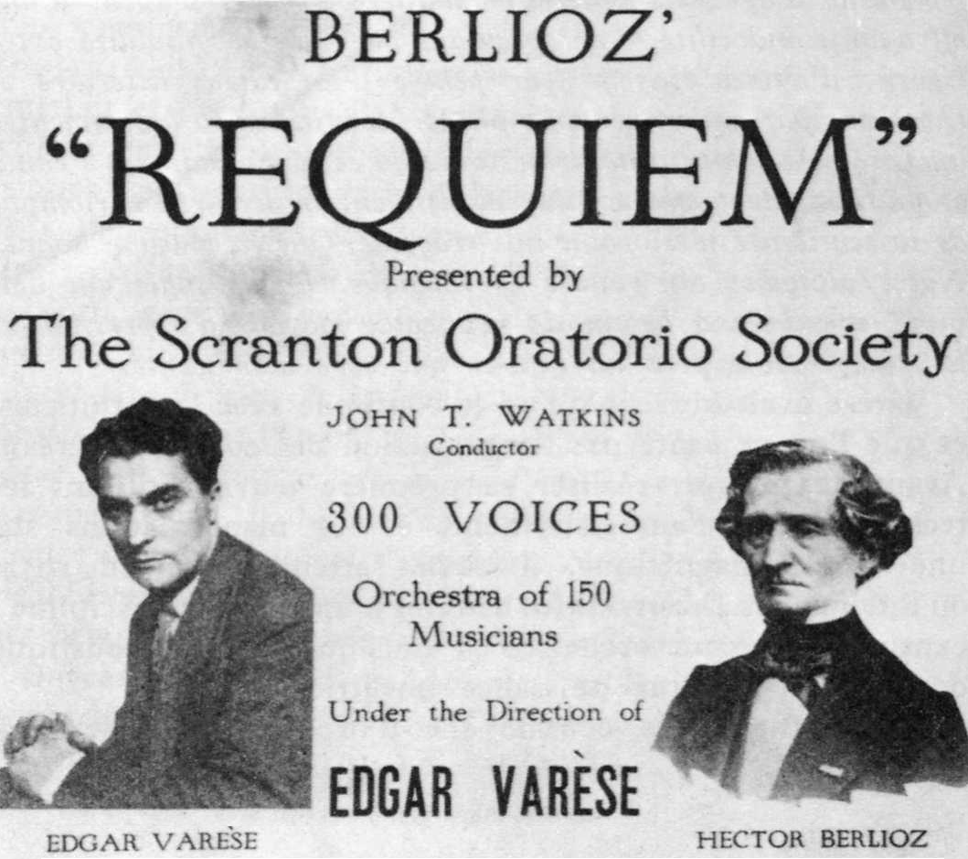 poster for a concert given on April 1st 1917 in New York